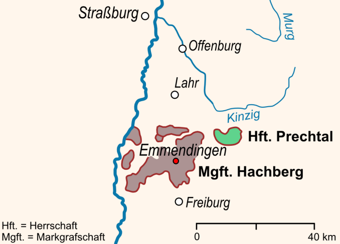 Map of the Markgrafschaft Baden-Hachberg around 1410